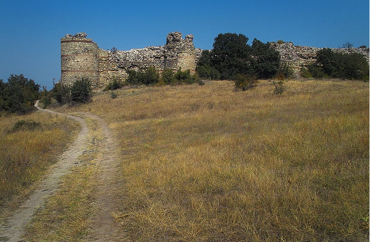 Versinikia fortress today